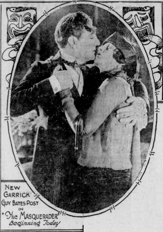 Newspaper ad for the American film The Masquerader (1922) with Guy Bates Post and Ruth Cummings, overlapping ads for other films removed from image, on page 8 of the August 26, 1922 Duluth Herald.